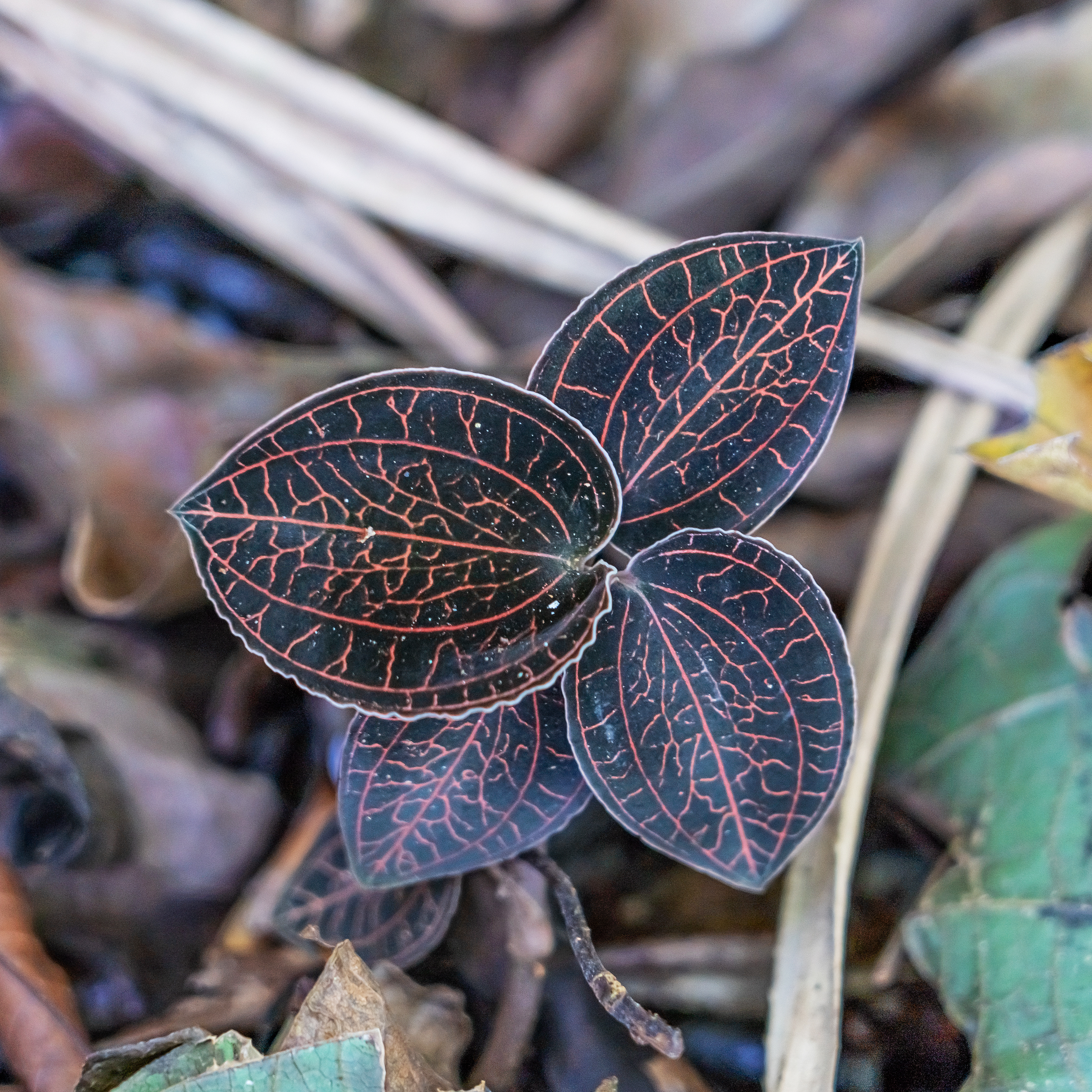 Anoectochilus regalis in Sinharaja Rainforest near Deniyaya, Sri Lanka